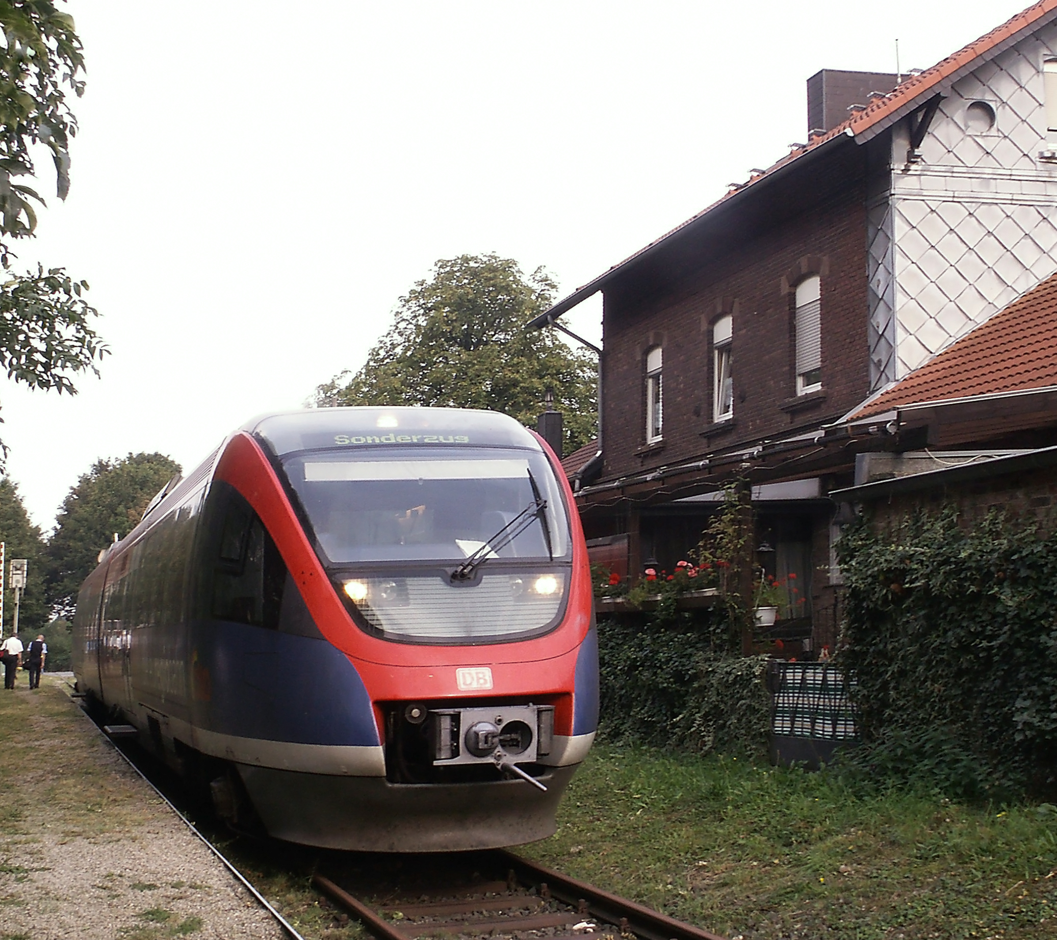 Bombardier Talent class 643.2 from the Euregiobahn at a special trip on the railway line from Stolberg to Eupen at the station of Breinig.